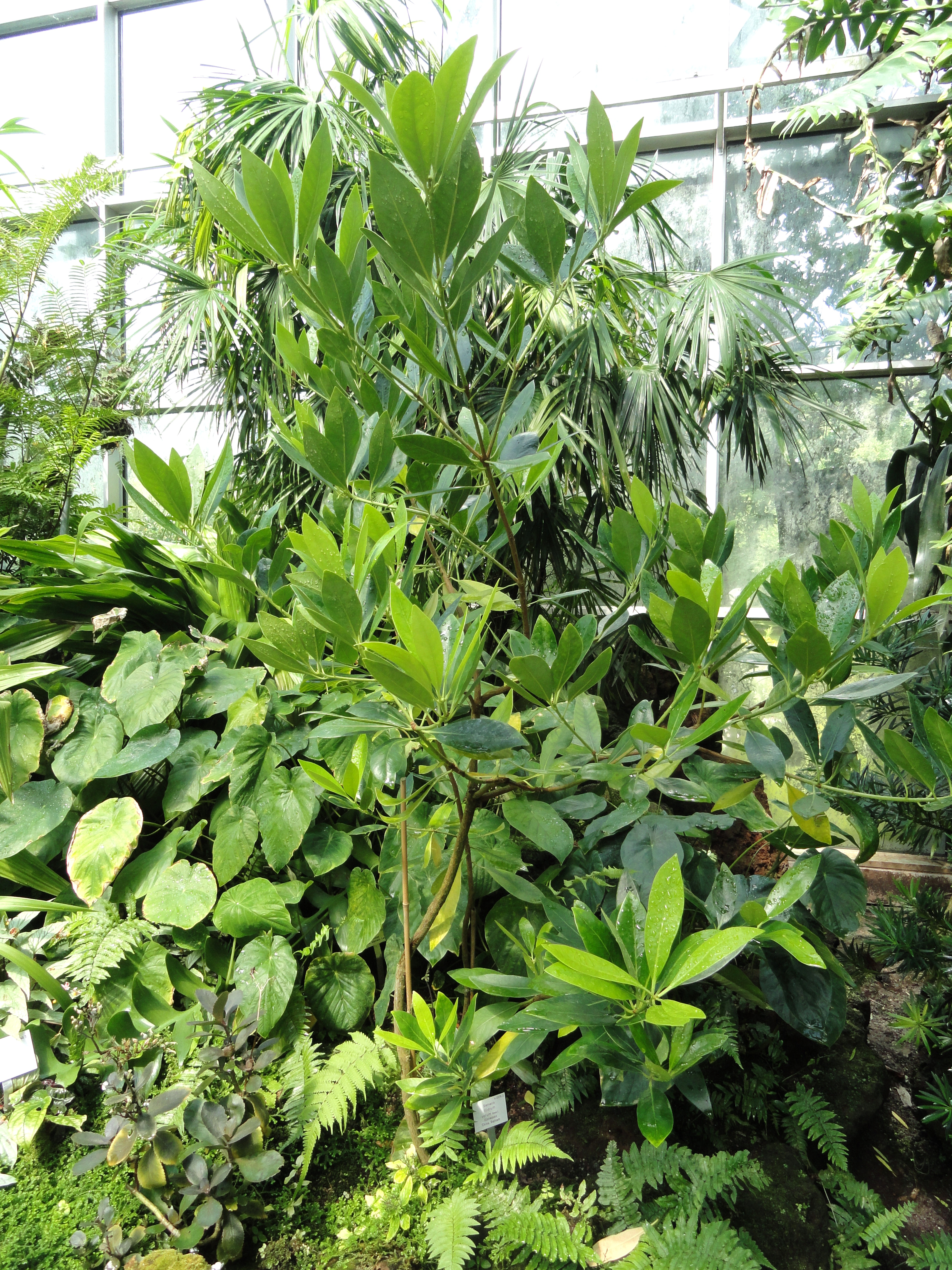 Botanical specimen of Illicium parviflorum in the Palmengarten, Frankfurt am Main, Germany.